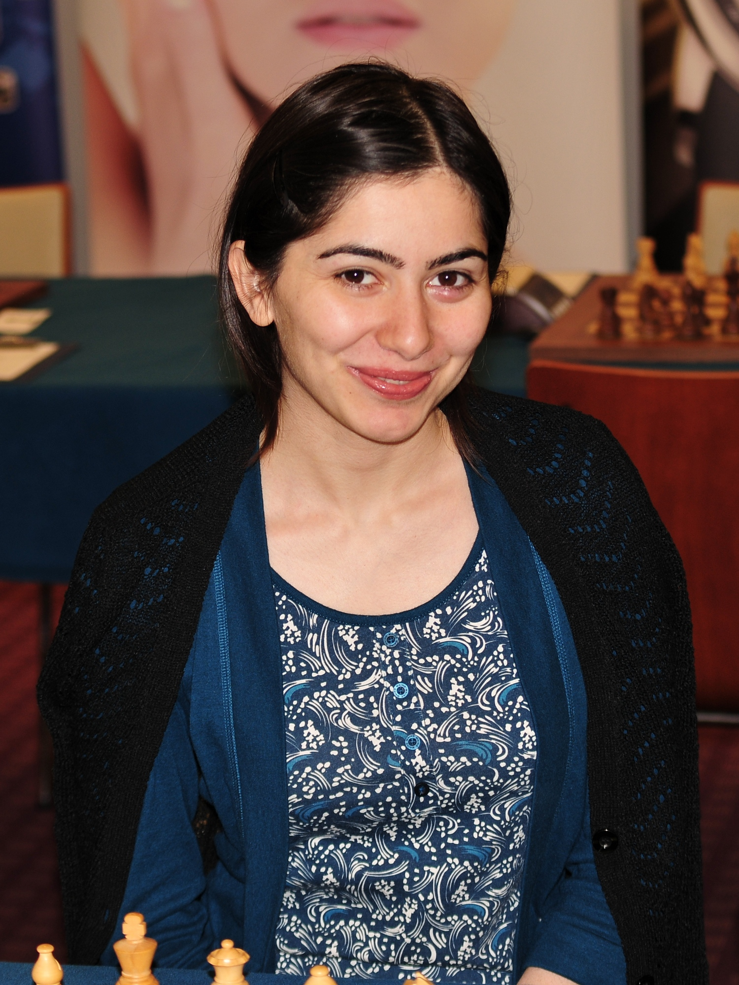 IM Lilit Mkrtchian, European Chess Team Championship Warsaw 2013